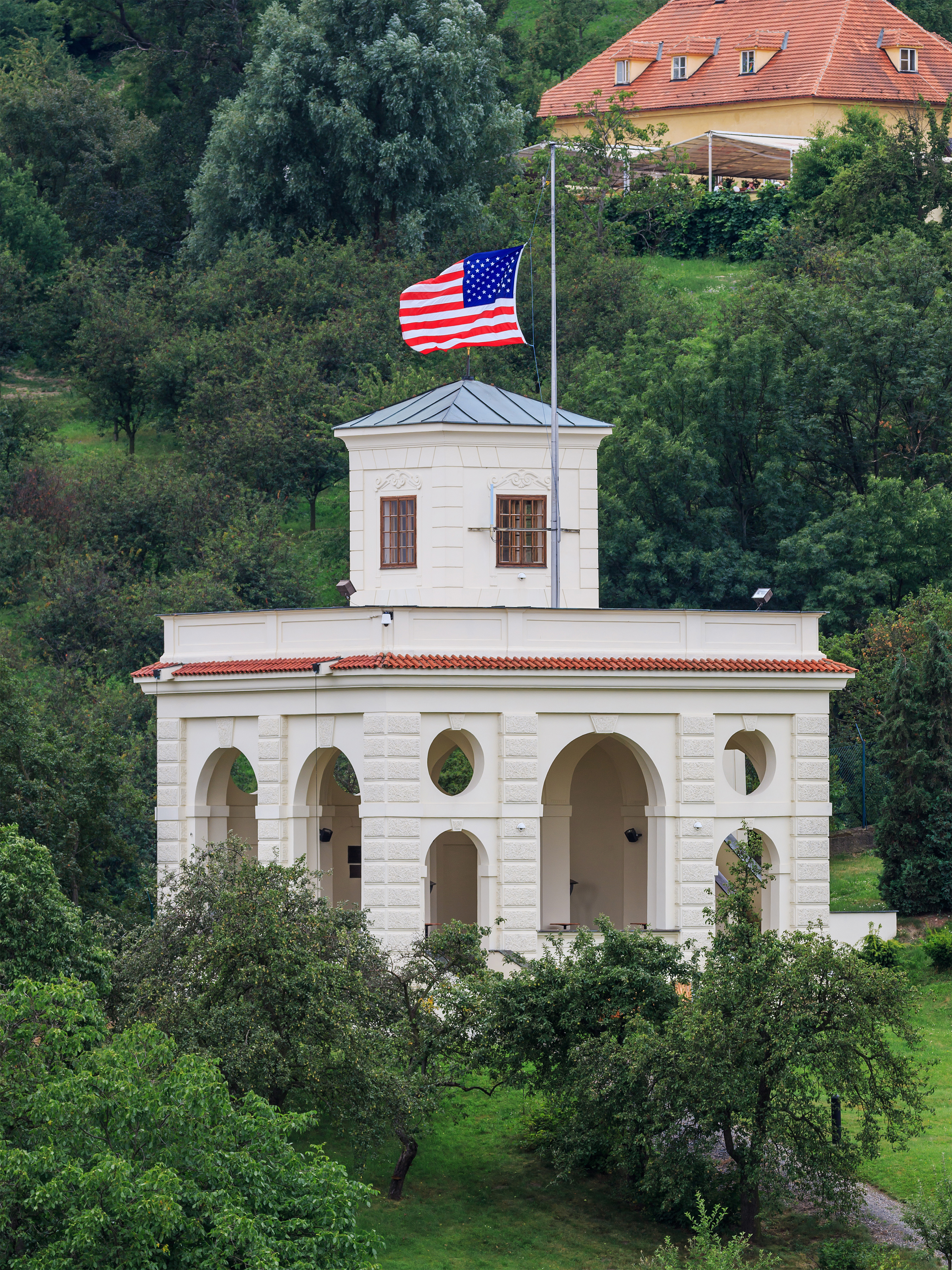 View from St.Nicholas Church in Lesser Town in Prague (Czech Republic) – Garden pavilion of Schönborn Palace